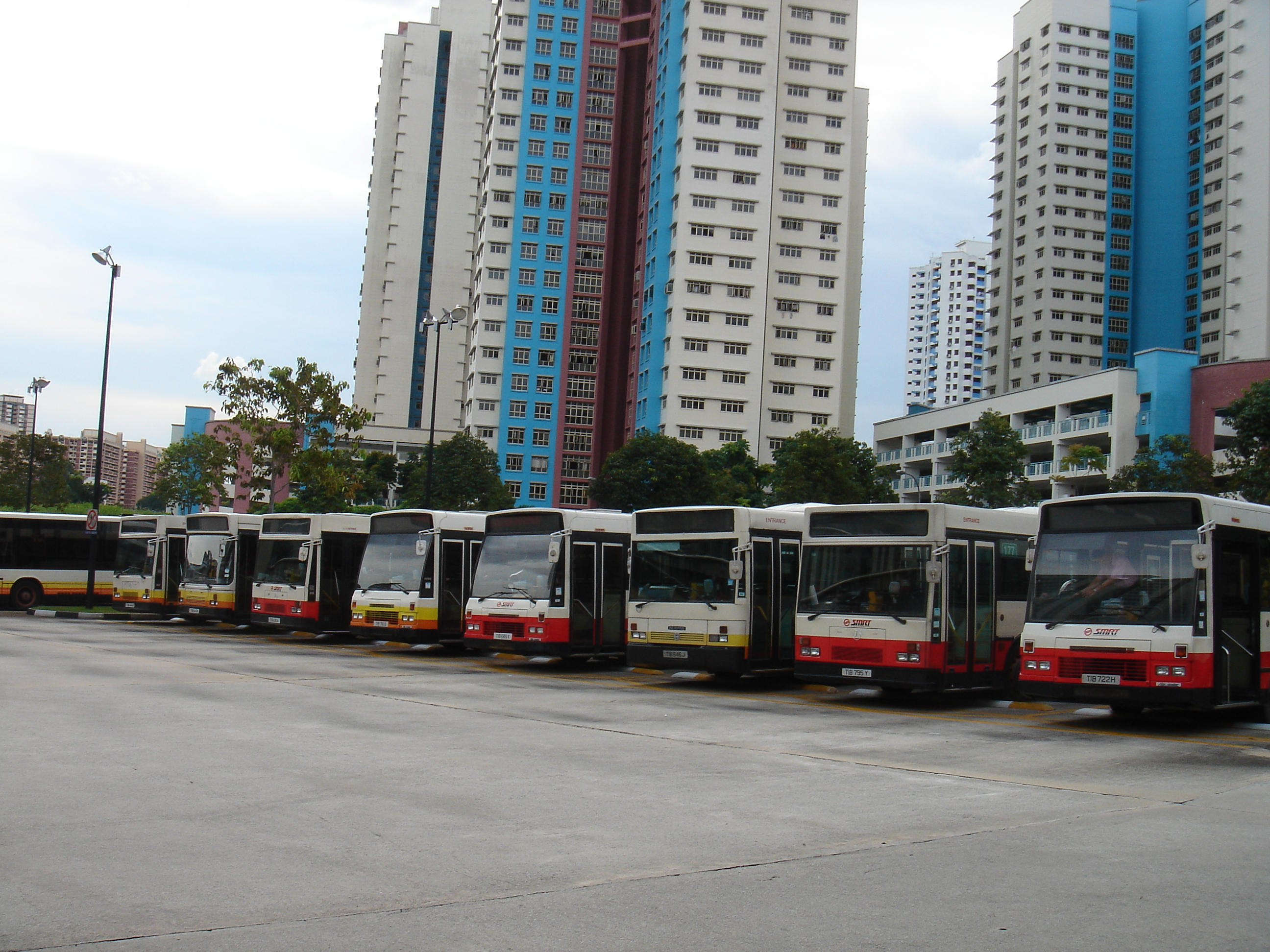 Lineup of SMRT Buses at Bukit Panjang Bus Interchange, in TIBS and SMRT liveries, Singapore. From right to left: Alexander Setanta (Santara?) bodied DAF SB220 (TIB722H, built 1995), Hispano CAC bodied Mercedes-Benz O405 (TIB795Y, built 1995), ELBO bodied Scania L113CRL (TIB846J, built 1996), etc.